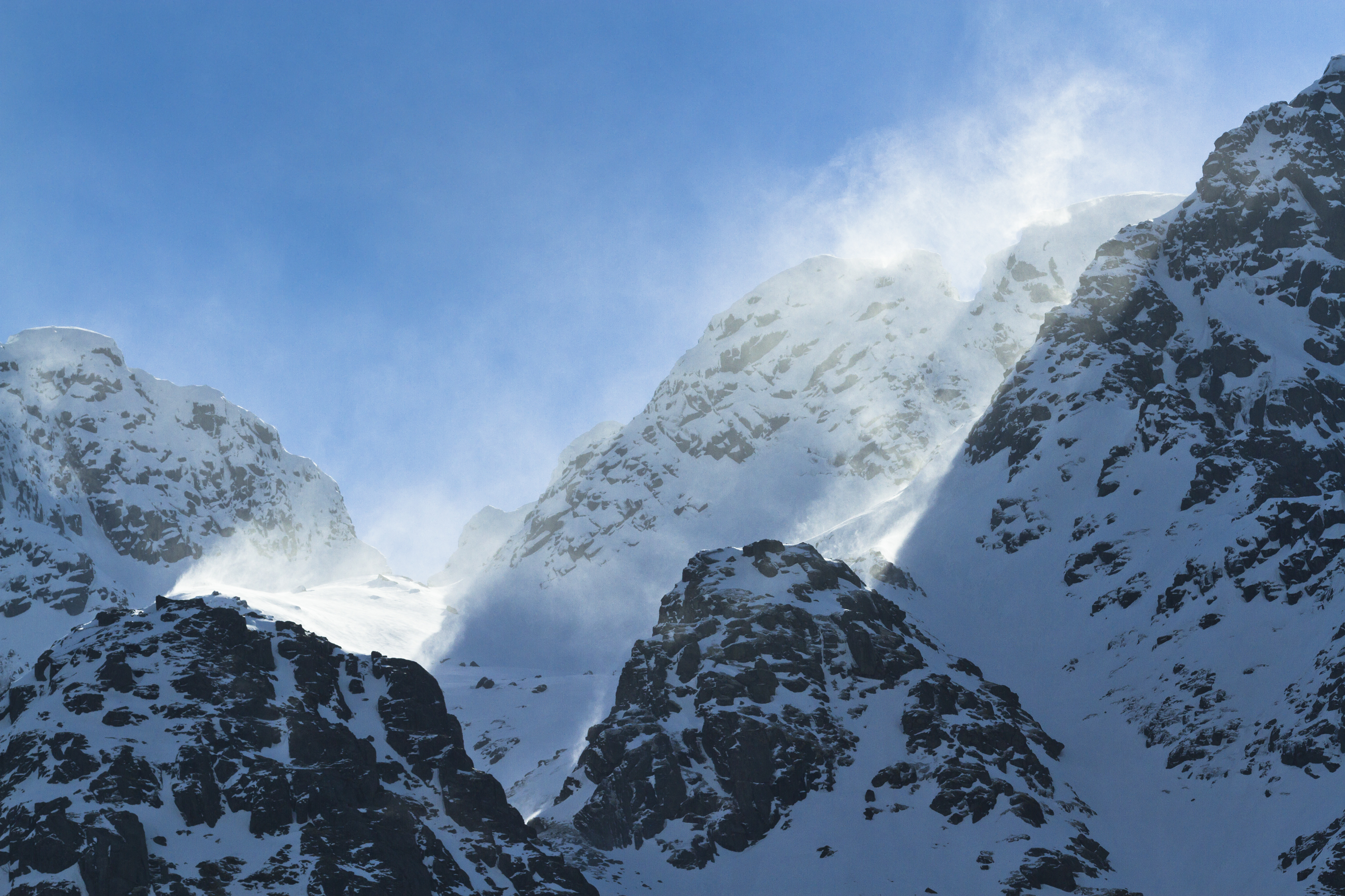 Blowing snow over Langstrandtindan mountains as seen from Sildpollneset on island Austvågøya, Lofoten, Nordland, Norway in 2015 April.